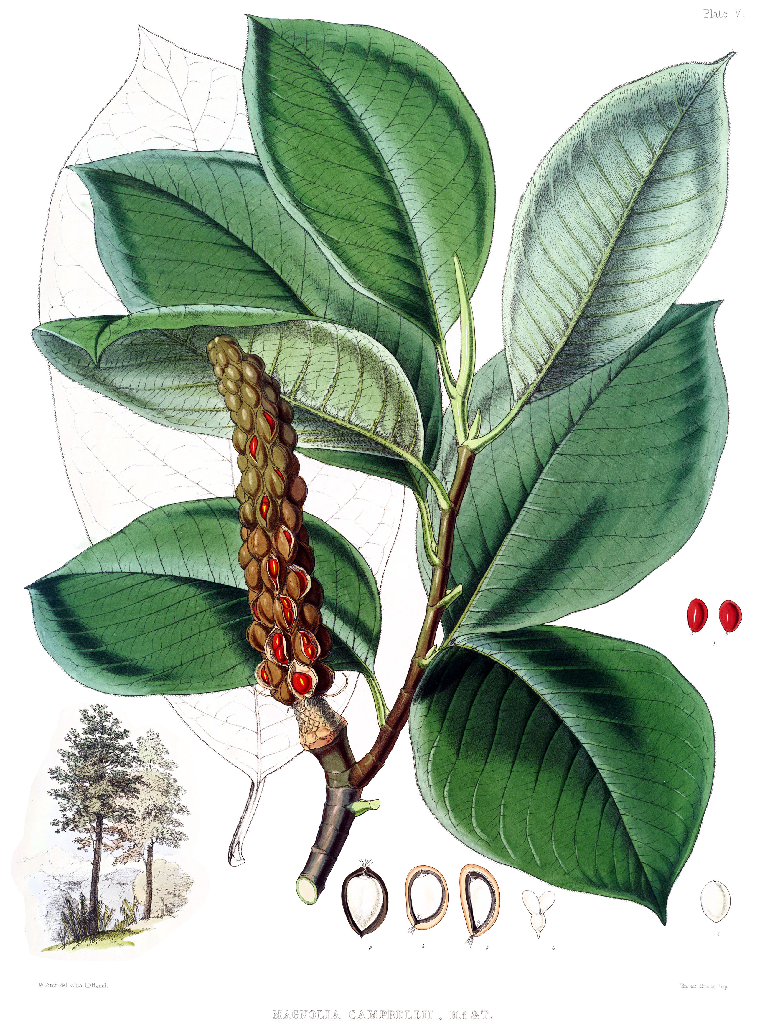 Magnolia campbellii leaves and seeds. Original caption: "Plate V. represents a branch with leaves and ripe fruit; behind is an old leaf; to the left, two full-grown trees, sixty to ninety feet high, in leaf. Fig. 1. Seeds, of the natural size. 2. A seed. 3. Vertical section of the testa of the seed with its outer fleshy covering removed, showing inside the endopleura, containing albumen and embryo. 4, 5. Vertical sections of seed, showing the red, fleshy, outer layer of testa, the black crustaceous coat of the same, the albumen, and minute embryo. 6. Embryo :—all magnified.